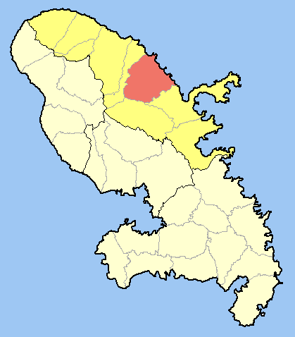 Location of Sainte-Marie within Martinique